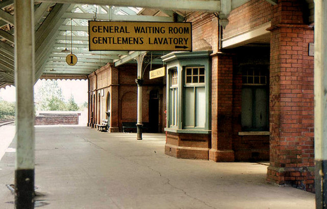 Ballymoney station (1). The present railway station, dating from 1902, was designed by the railway�s architect/civil engineer Berkeley Deane Wise 1746685. It is similar to that at Antrim 78340 and 612512. When built, it was served by the... more